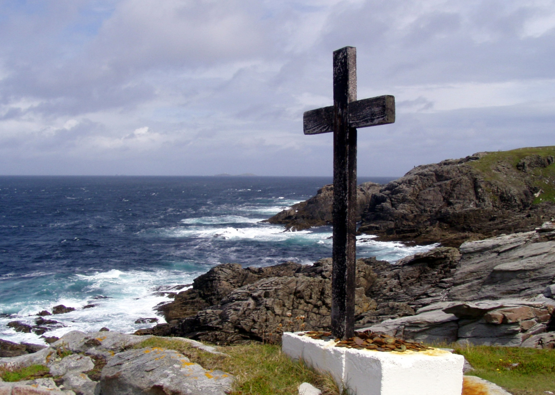 Picture of Malin Head, the most northerly headland of the mainland of Ireland